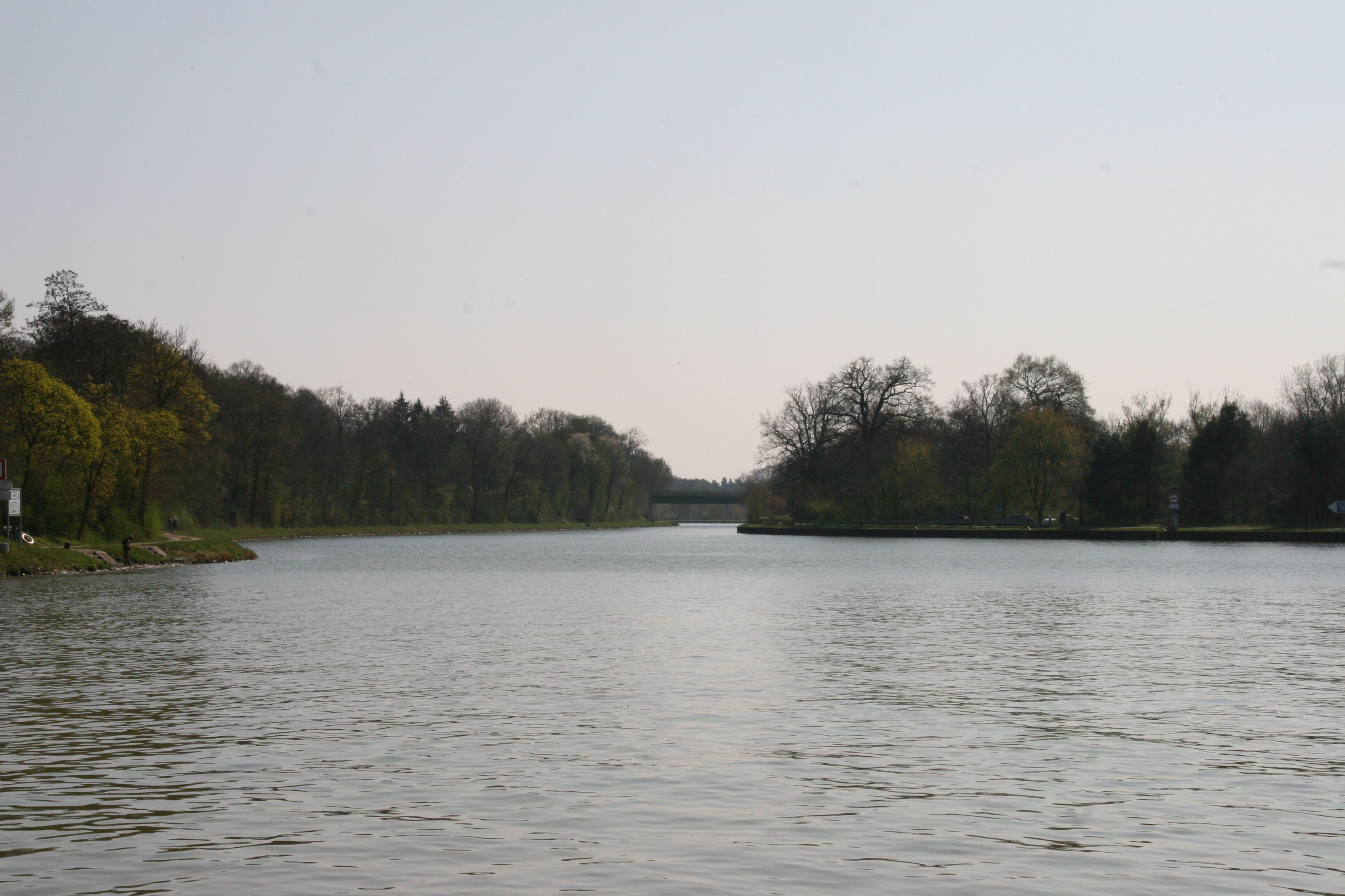 Bramsche-Achmer: branch canal for port of Osnabrück